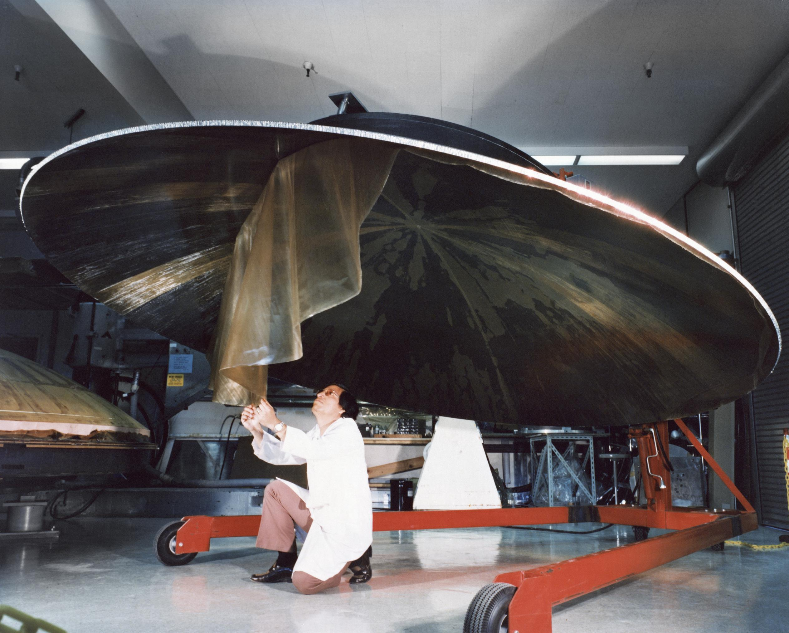 Voyager Antenna Dish Construction